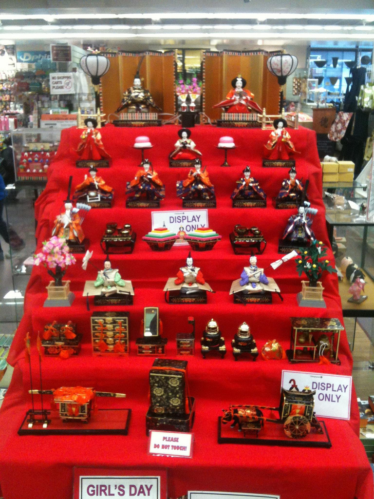 A Hinamaturi doll display shown at a local Japanese import store in Seattle. Apologies on the bad quality (taken by mobile phone).